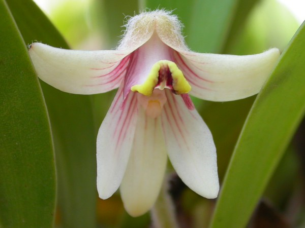 Eria